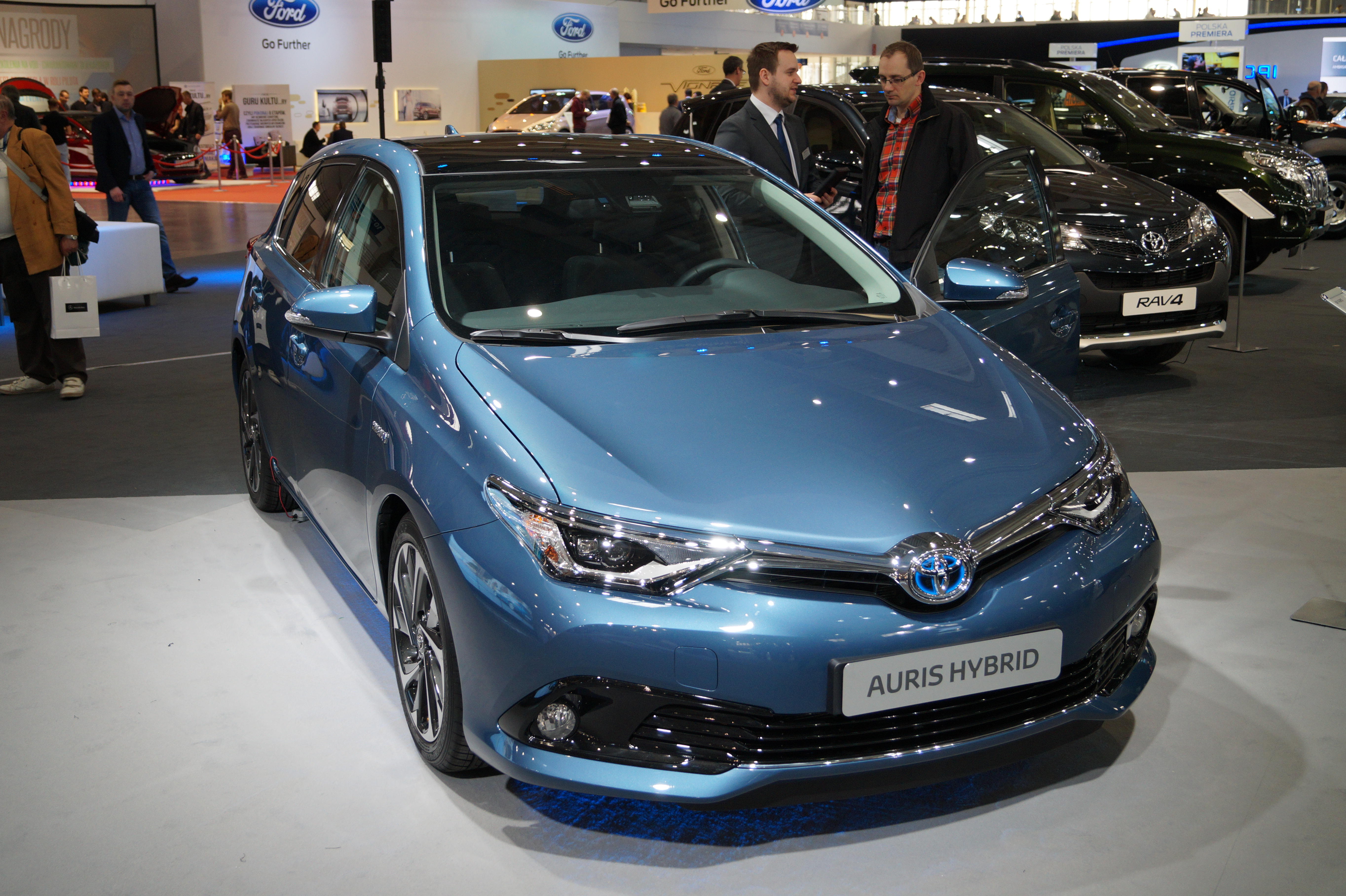 The making of this document was supported by Wikimedia Polska Association, within Wikigrant no. WG 2015-19. Toyota Auris Hybrid na Motor Show Poznań 2015